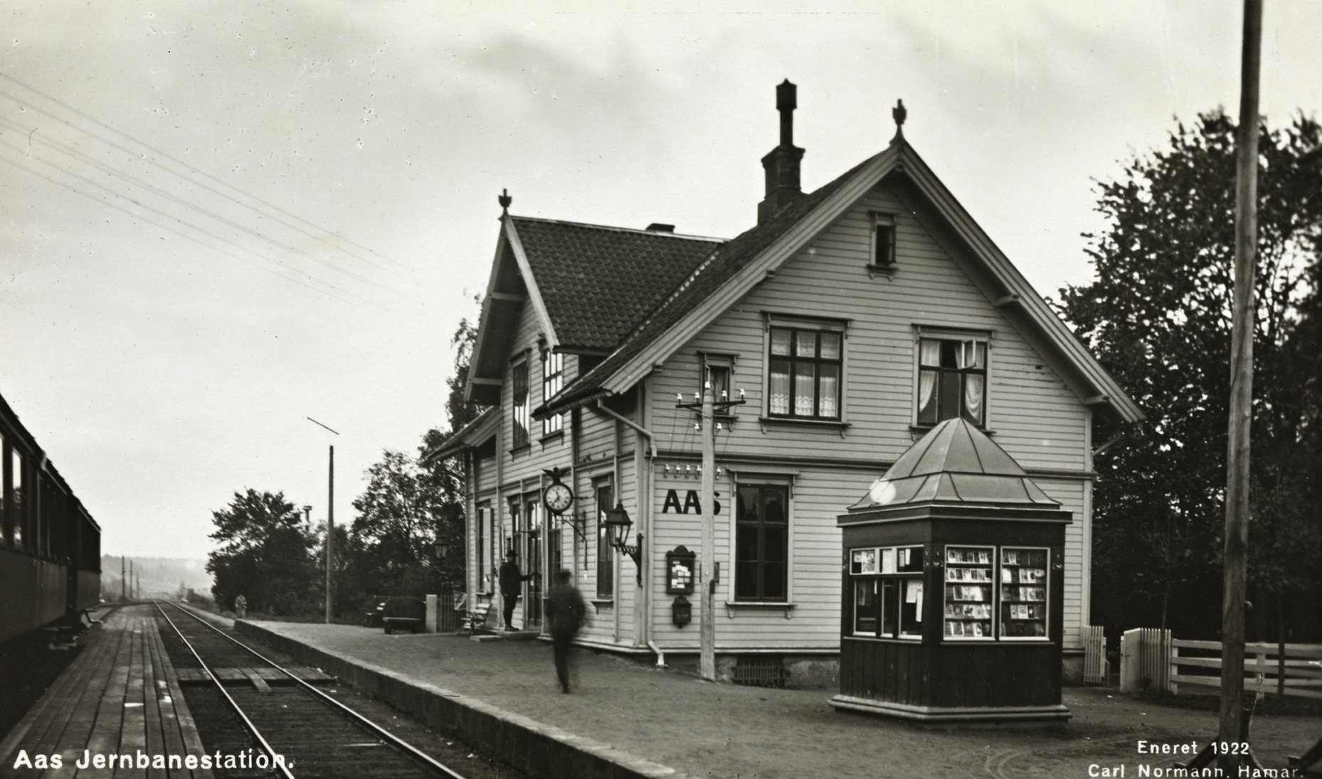 Tittel / Title: Aas Jernbanestation Motiv / Motif: Postkort. Dato / Date: 1922 Fotograf / Photographer: Carl Normann (1886-1960) Utgiver / Publisher: Carl Normann Sted / Place: Akershus, Ås Eier / Owner Institution: Nasjonalbiblioteket / National Library of Norway Lenke / Link: Bildesignatur / Image Number: blds_05671